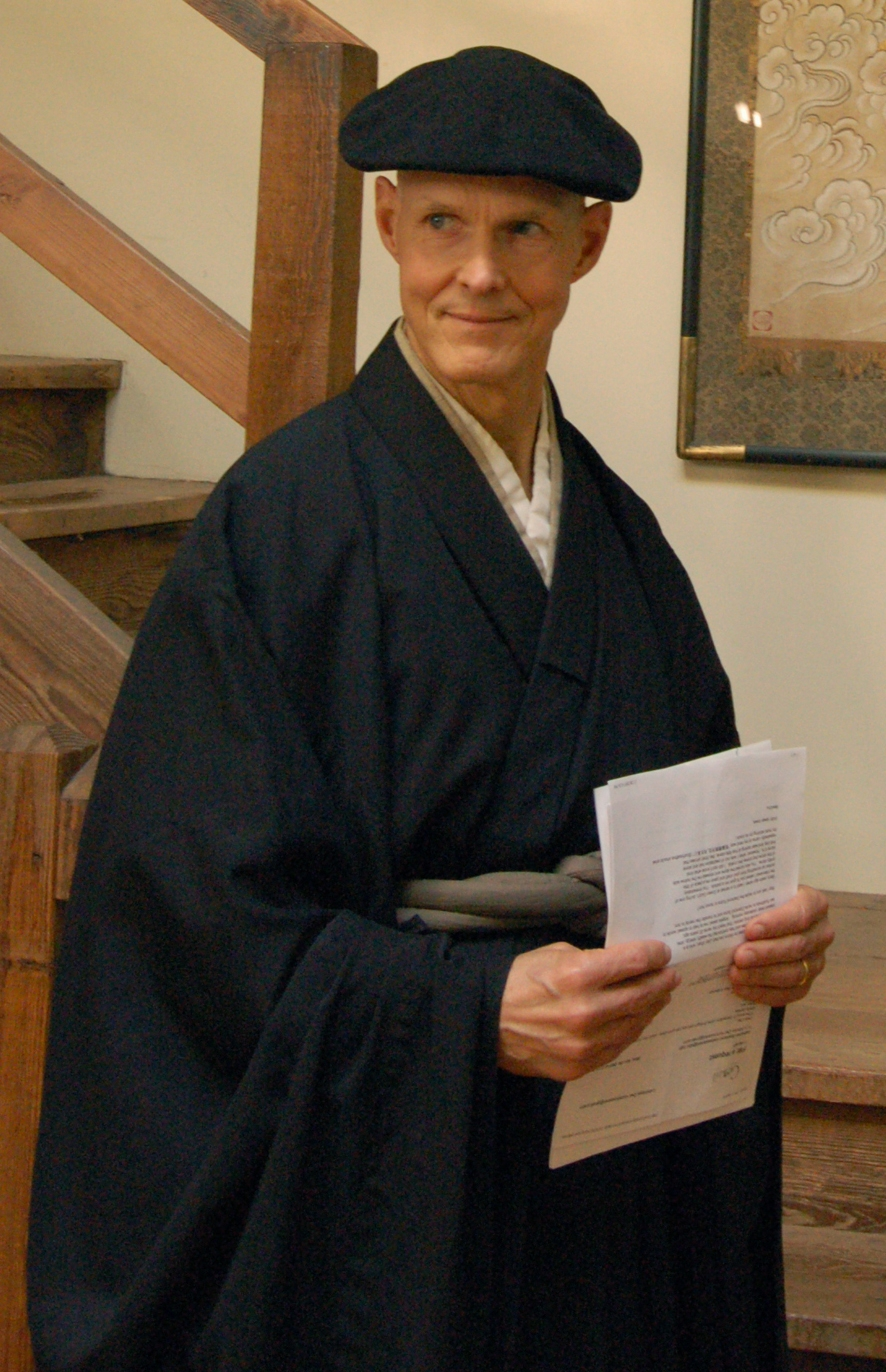 Reb Anderson